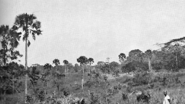 Savannah in central Congo